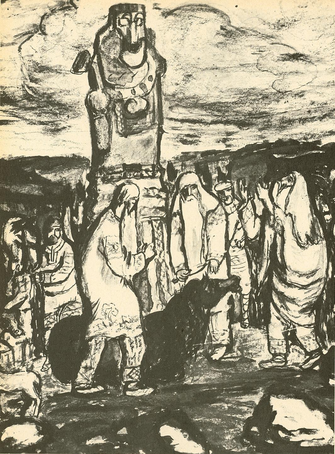 Historical painting